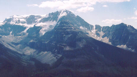 Stanley Peak (3,155 m/10,352 ft), Kootenay National Park, British Columbia, CanadaPhoto taken from the upper slopes of Mount Whymper.